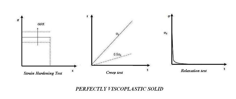 This was performed on Power Point Presentation.